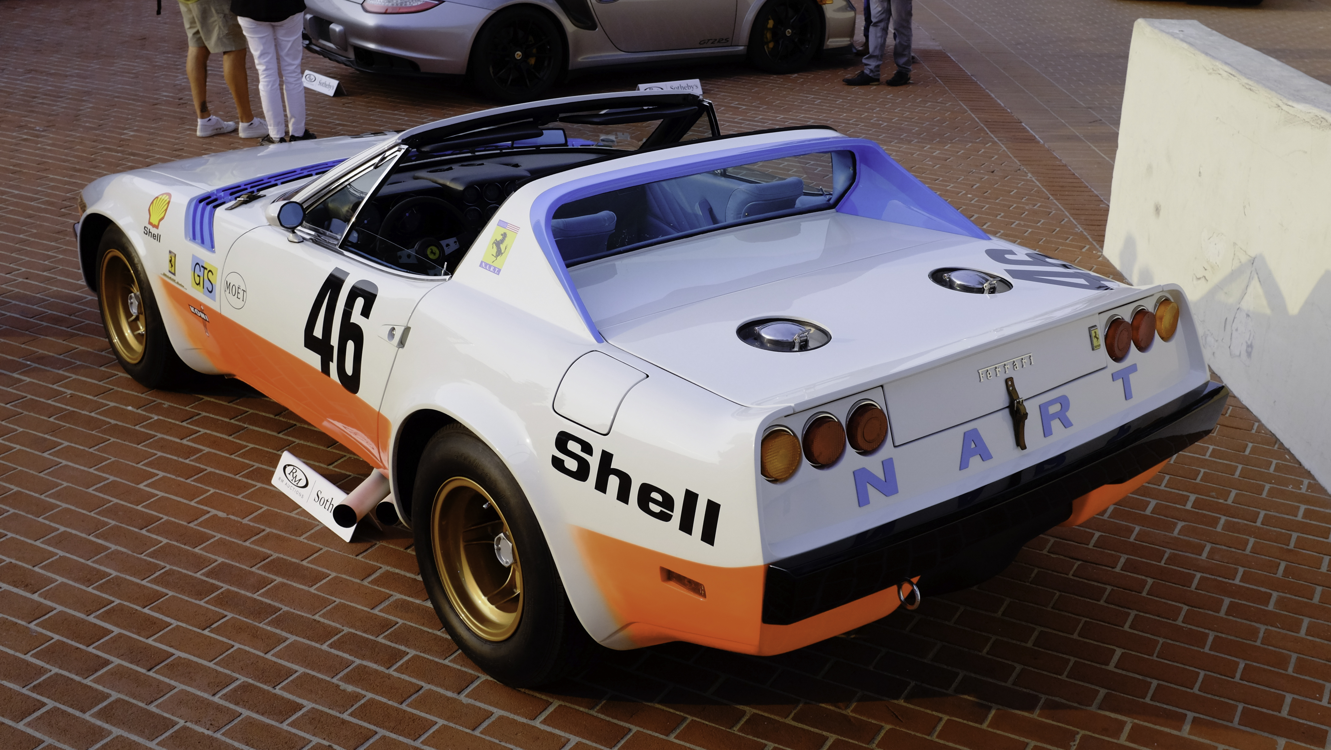 Rear view of 1972 Ferrari 365 GTB/4 Daytona NART Spider Competizione, bodied by Michelotti. Chassis number 15965. Photographed at RM Sotheby's 2018 Monterey, CA auction.